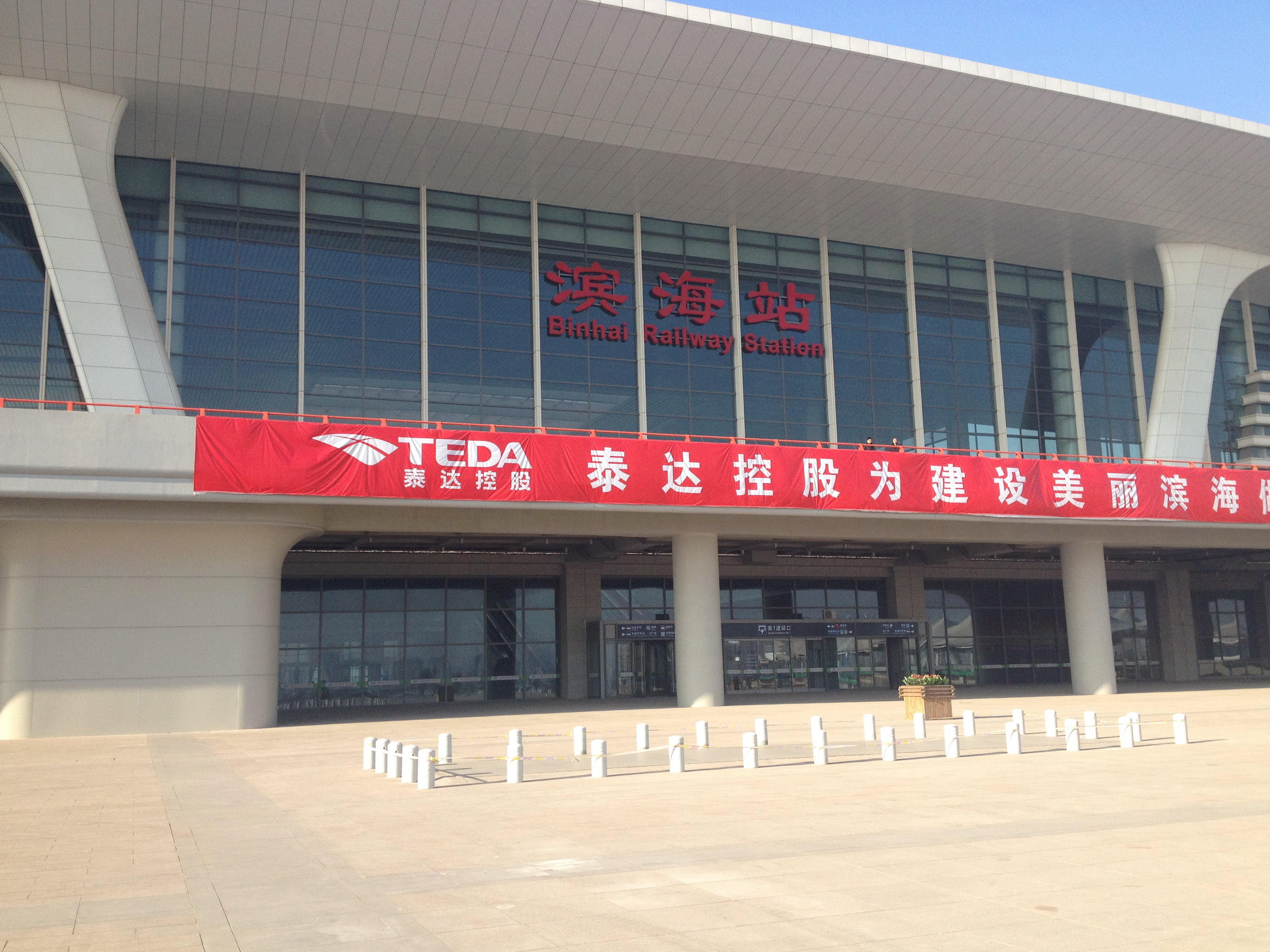 Binhai Railway Station of Tianjin, PRC